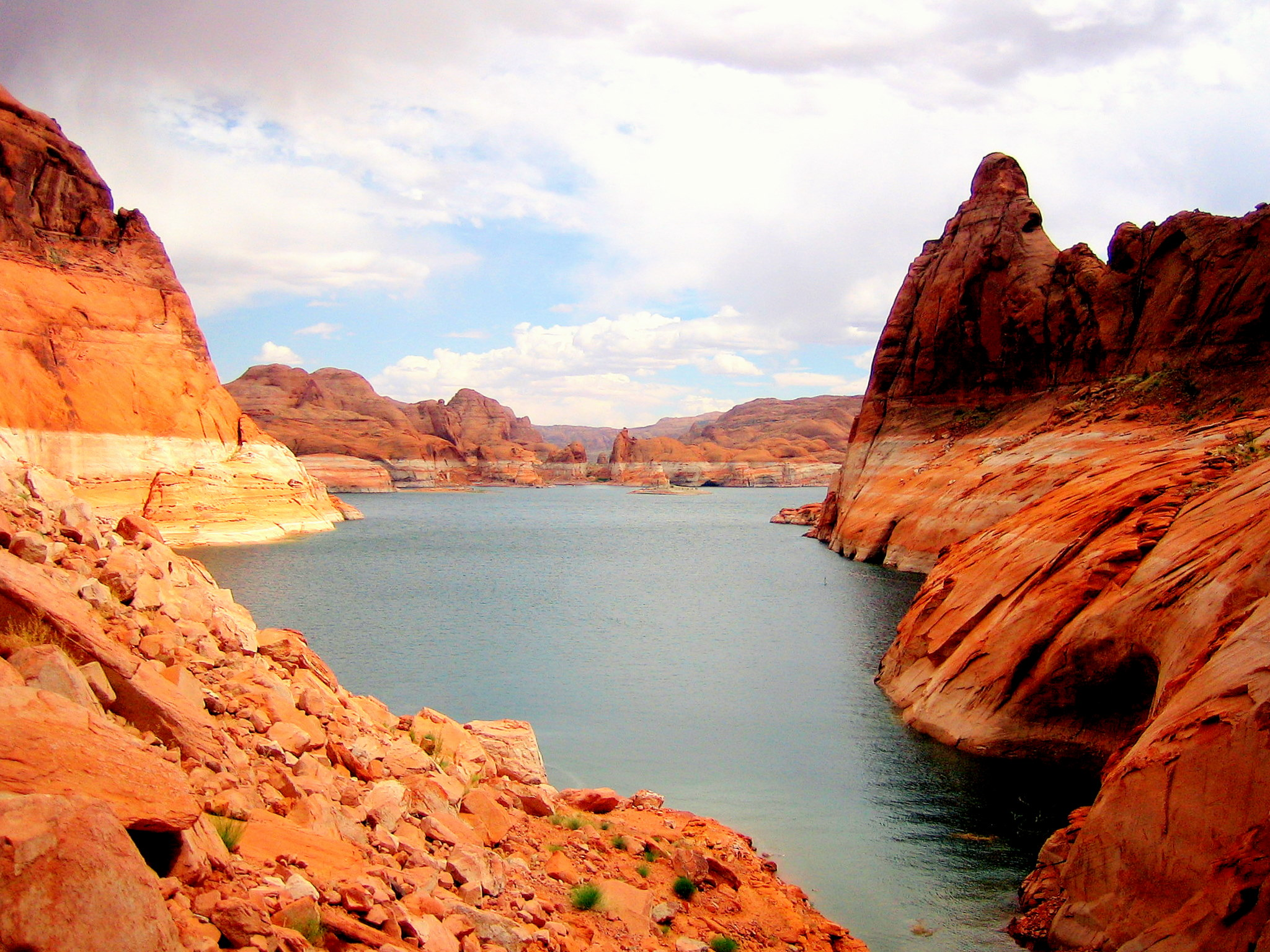 Lake Powell. At the bottom of Hole in the Rock, Glen Canyon National Recreation Area, Utah.